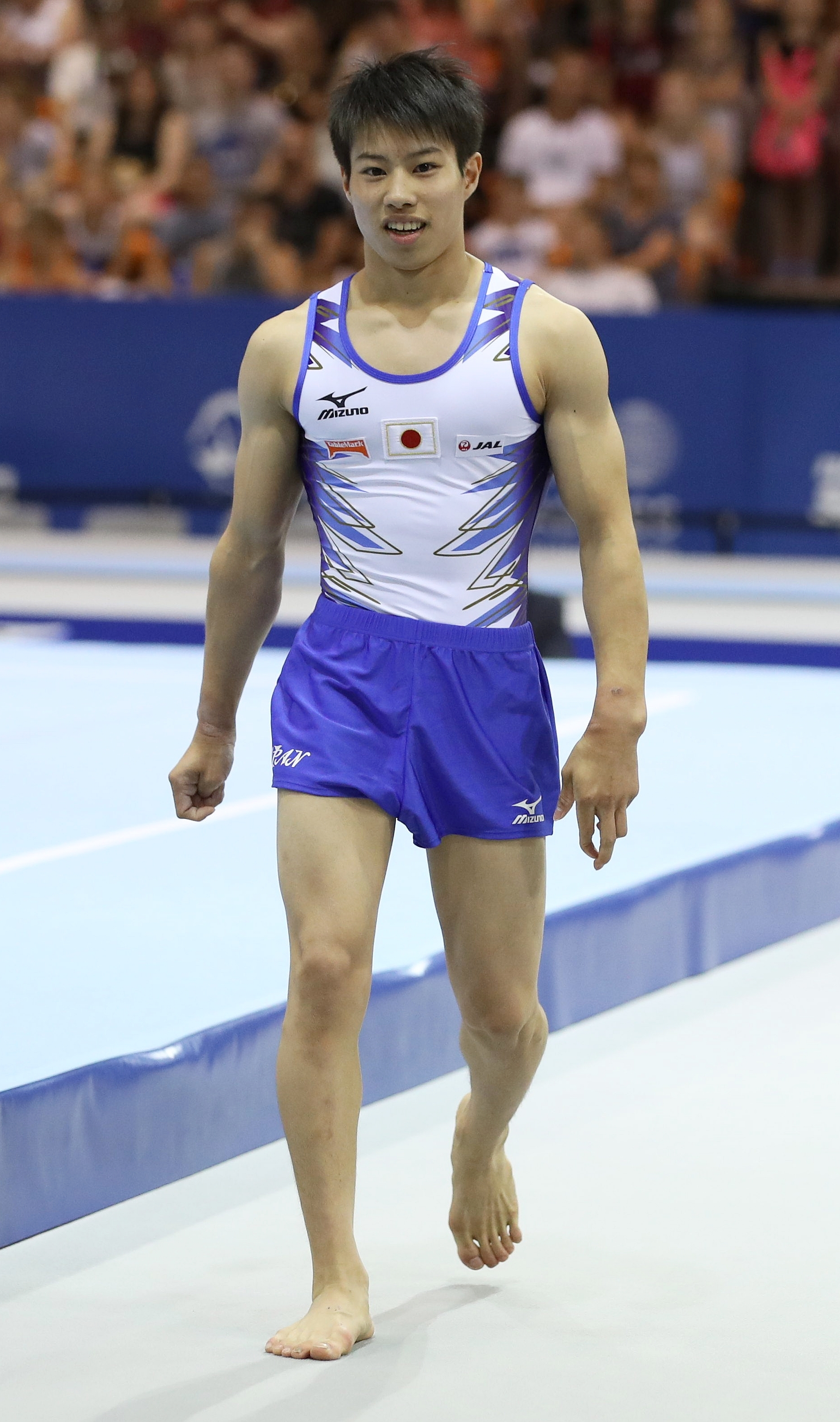 Floor exercise during the boys' apparatus finals at the 1st FIG Artistic Gymnastics Junior World Championships on 29 June 2019 in Győr, Hungary. Depicted: Ryosuke Doi.